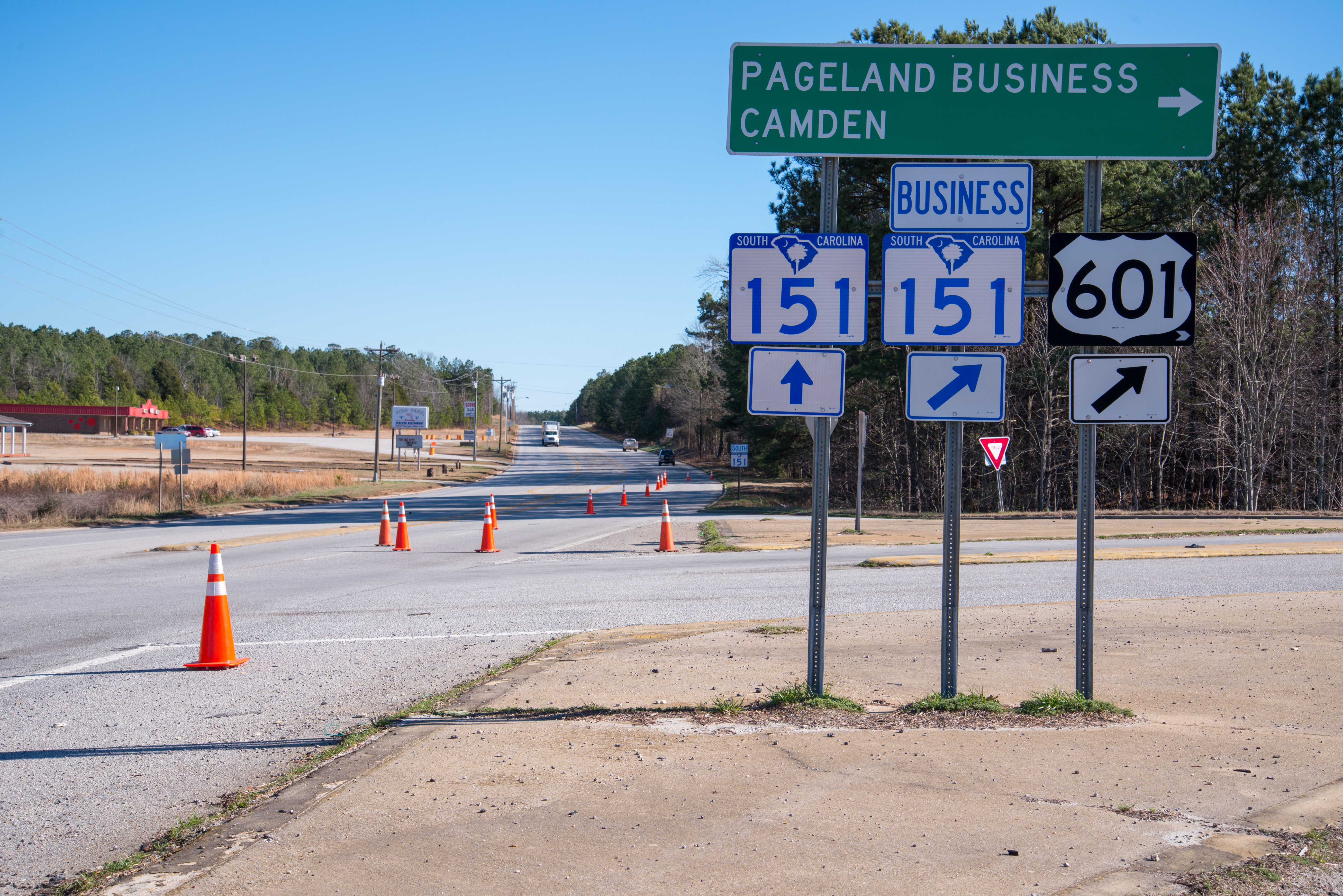 Start of both Southbound SC 151 and SC 151 Bus; US 601 takes right into Pageland, South Carolina. The orange cones are on the road because SCDOT was clearing the highway sides.